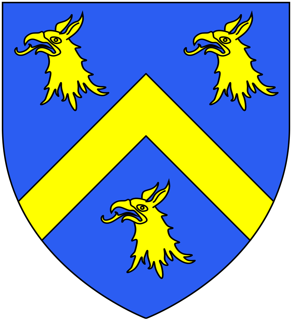 Arms of Tilney: Azure, a chevron between three griffin's heads erased or. Agnes Tilney was the wife of Thomas Howard, 2nd Duke of Norfolk (1443–1524).